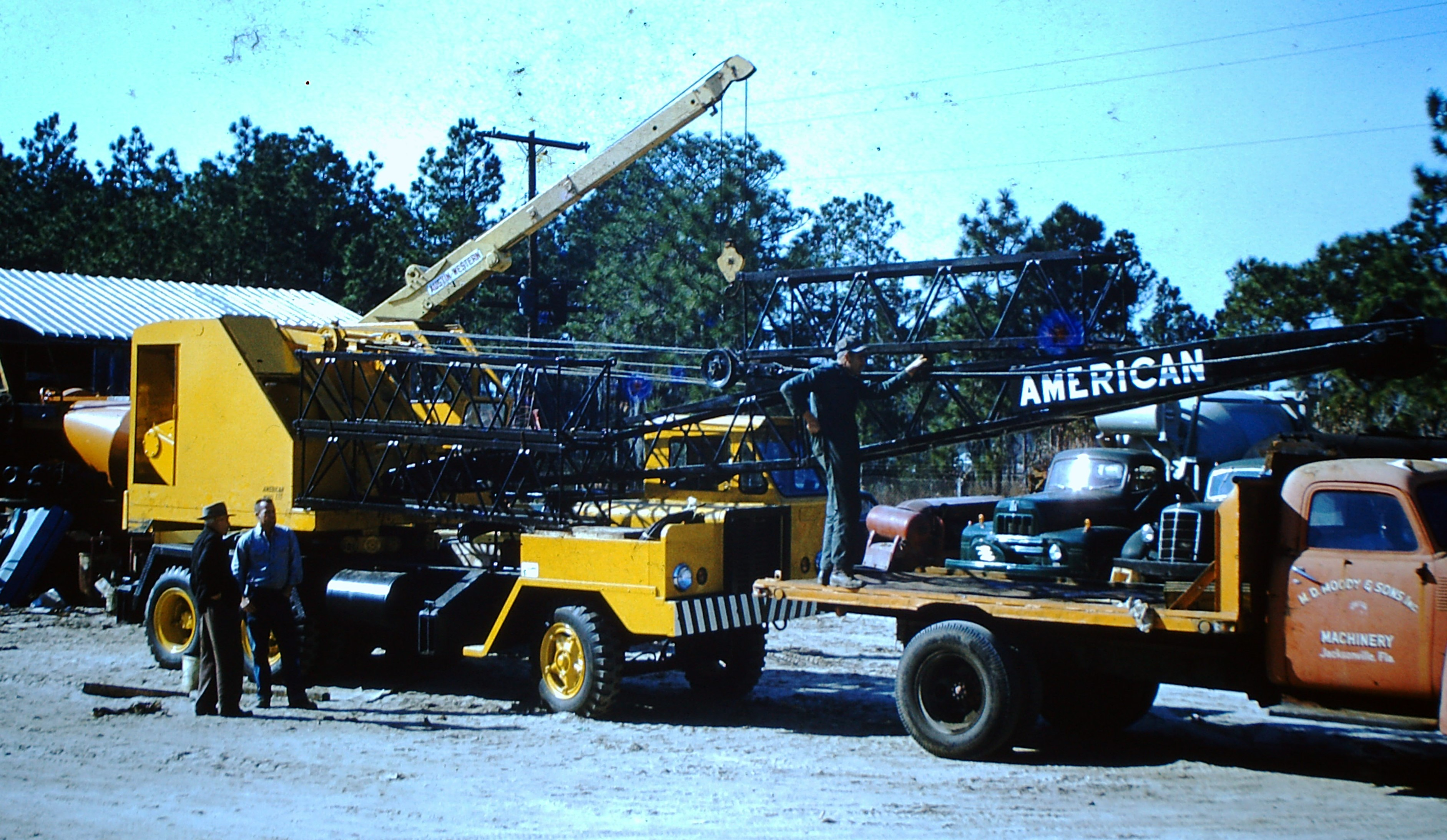 American crane delivery to M.D. Moody & Sons in 1957. The image was taken by Max Moody Jr. who died in 1987 and with permission of his son deemed this photo and all other photos in relation to M.D. Moody in the public domain.